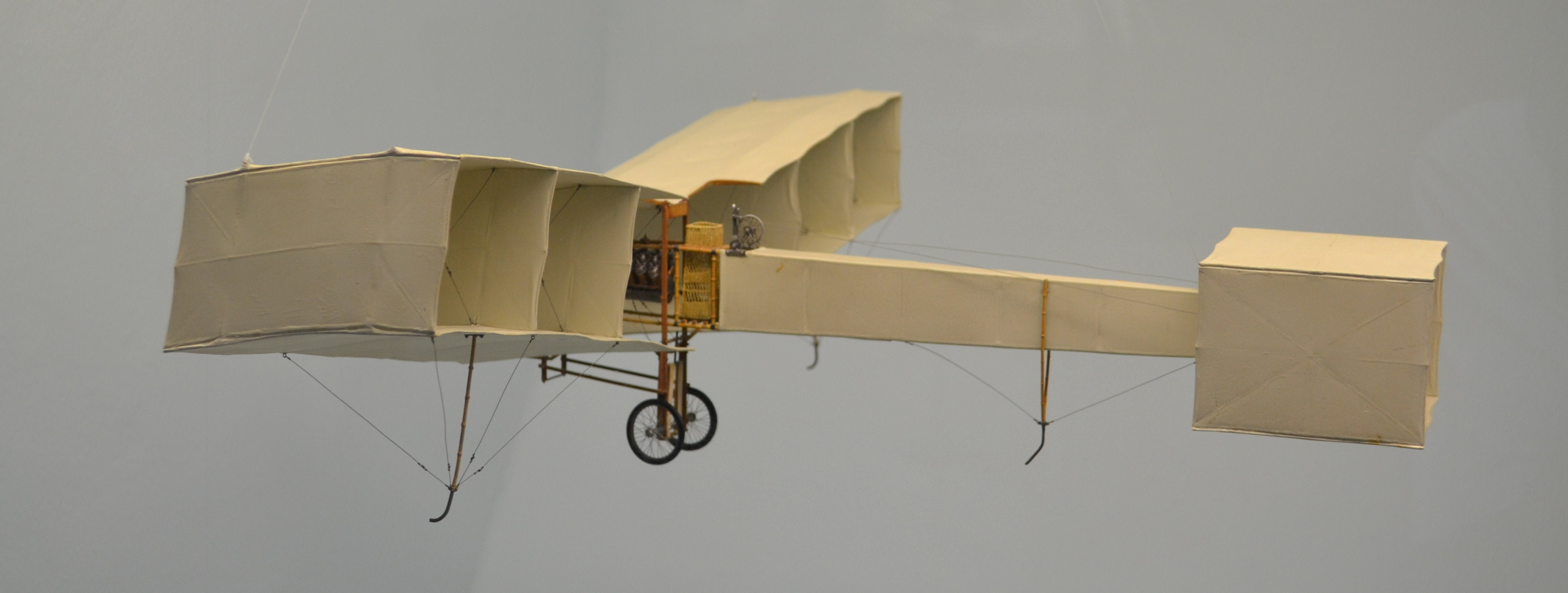 1:25 scale model of the Santos-Dumont 14-bis biplane, which flew several times in late 1906 in France. The model is in the Deutsches Museum of Munich, Germany.